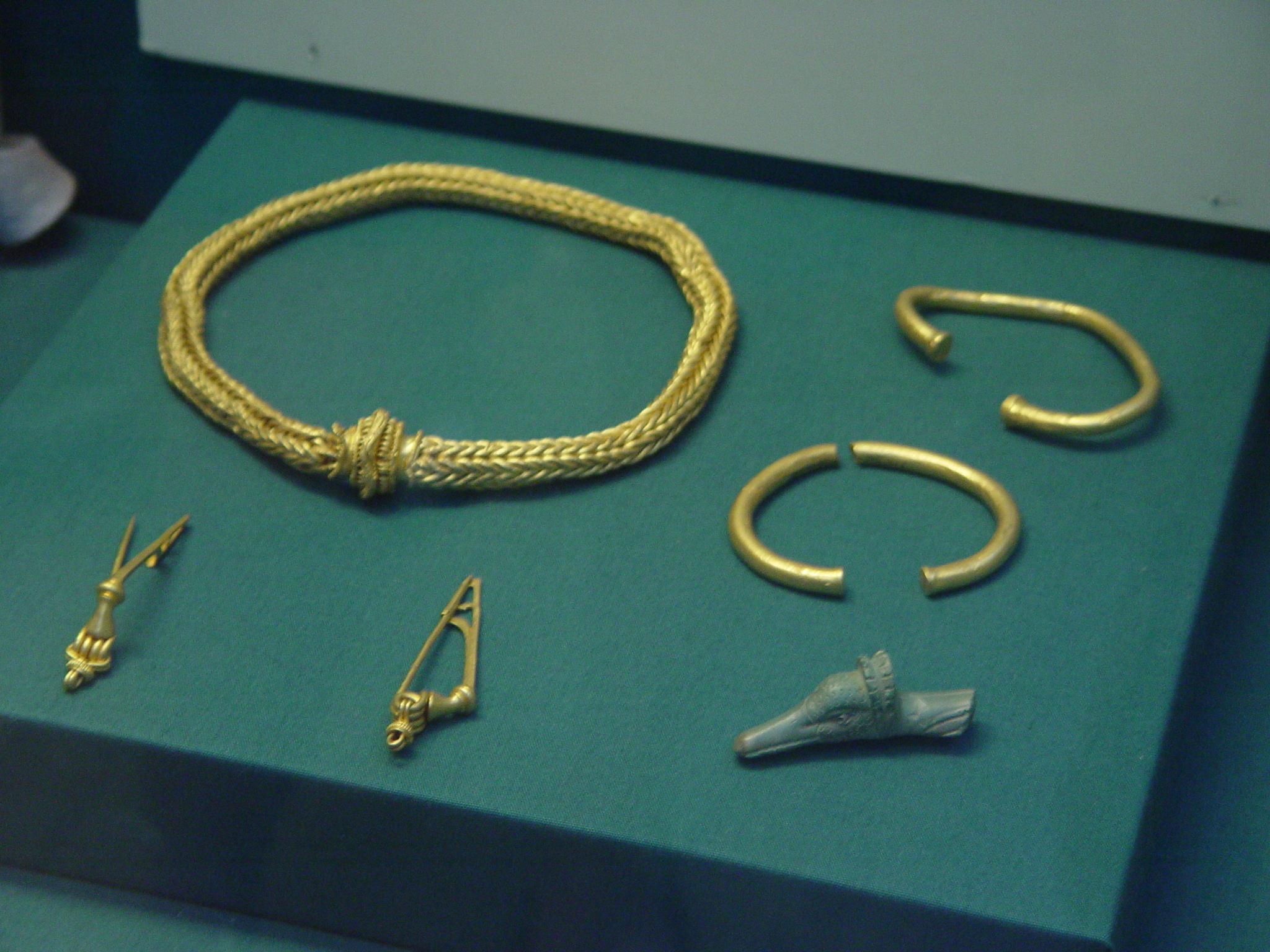 Iron Age c.50 BC A hoard found in 2000 and subsequently recorded on the Portable Antiquities Scheme. Made up of jewellery with a distinctive Roman feel to it, the hoard contains two sets of jewellery comprising a neck torc, a pair of brooches held together with a chain and two gold bracelets. The hoard was likely to have been left for safekeeping or as a religious offering. One chain remains undiscovered. Also, this jewellery might have been a diplomatic gift to a Chieftain ruling in southern Britain, possibly related to Commius of the Atrebates. Photo by Helen Etheridge.